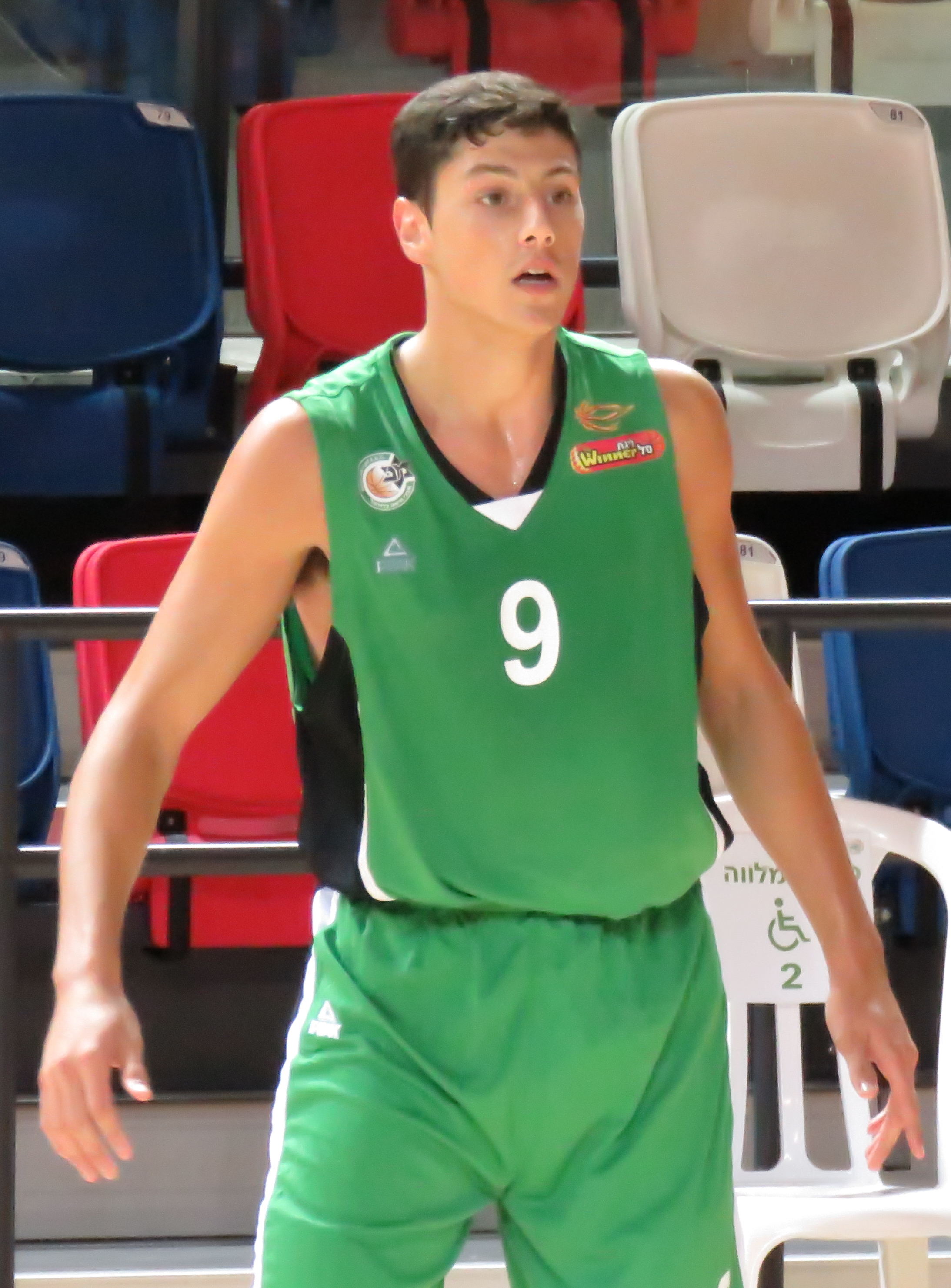 Hapoel Eilat vs. Maccabi Haifa B.C., 25 September, 2015